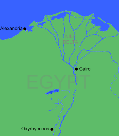 Map of the location of Oxyrhynchos